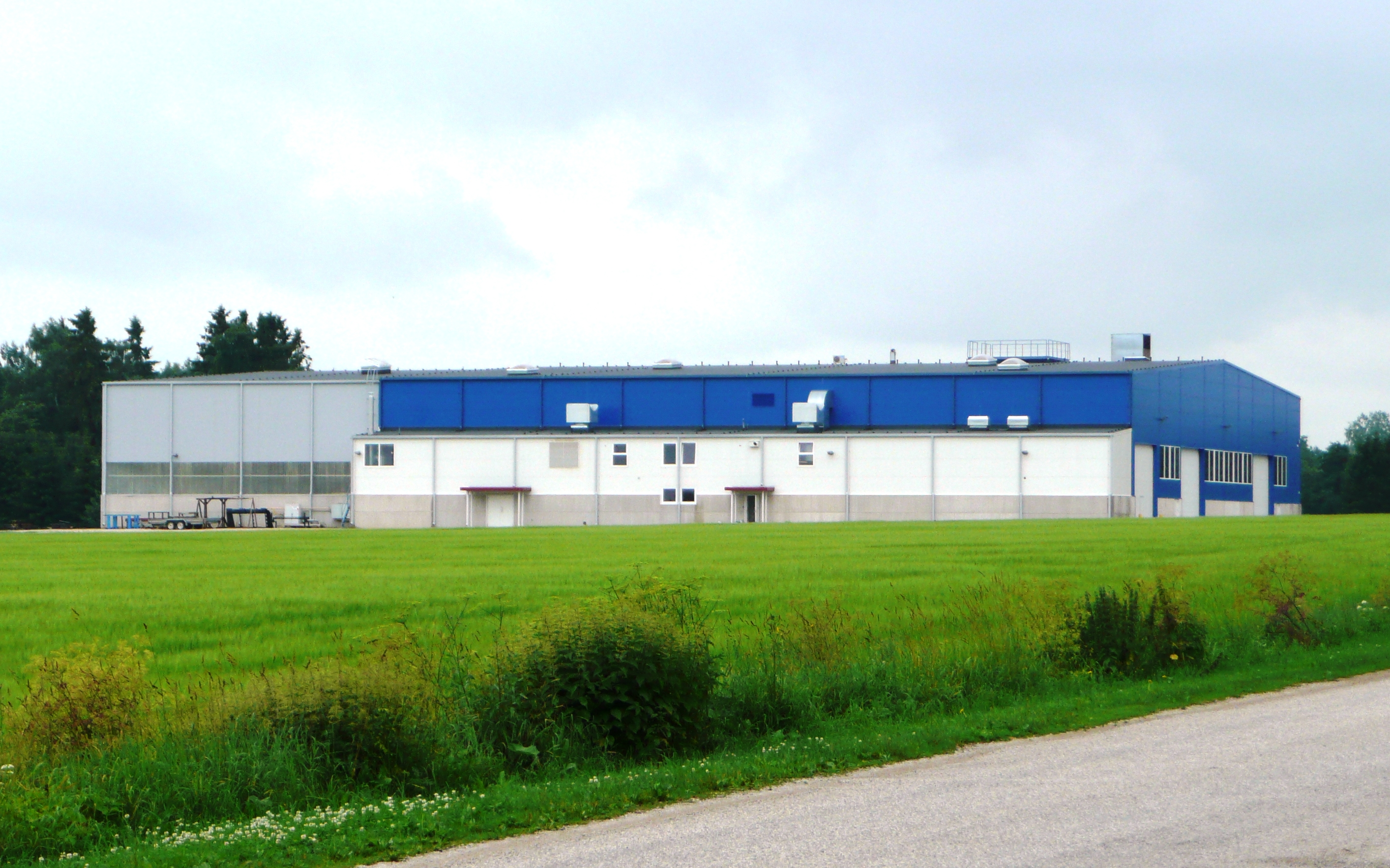 Industrial buildings near Rannu borough, Tartu County, Estonia.